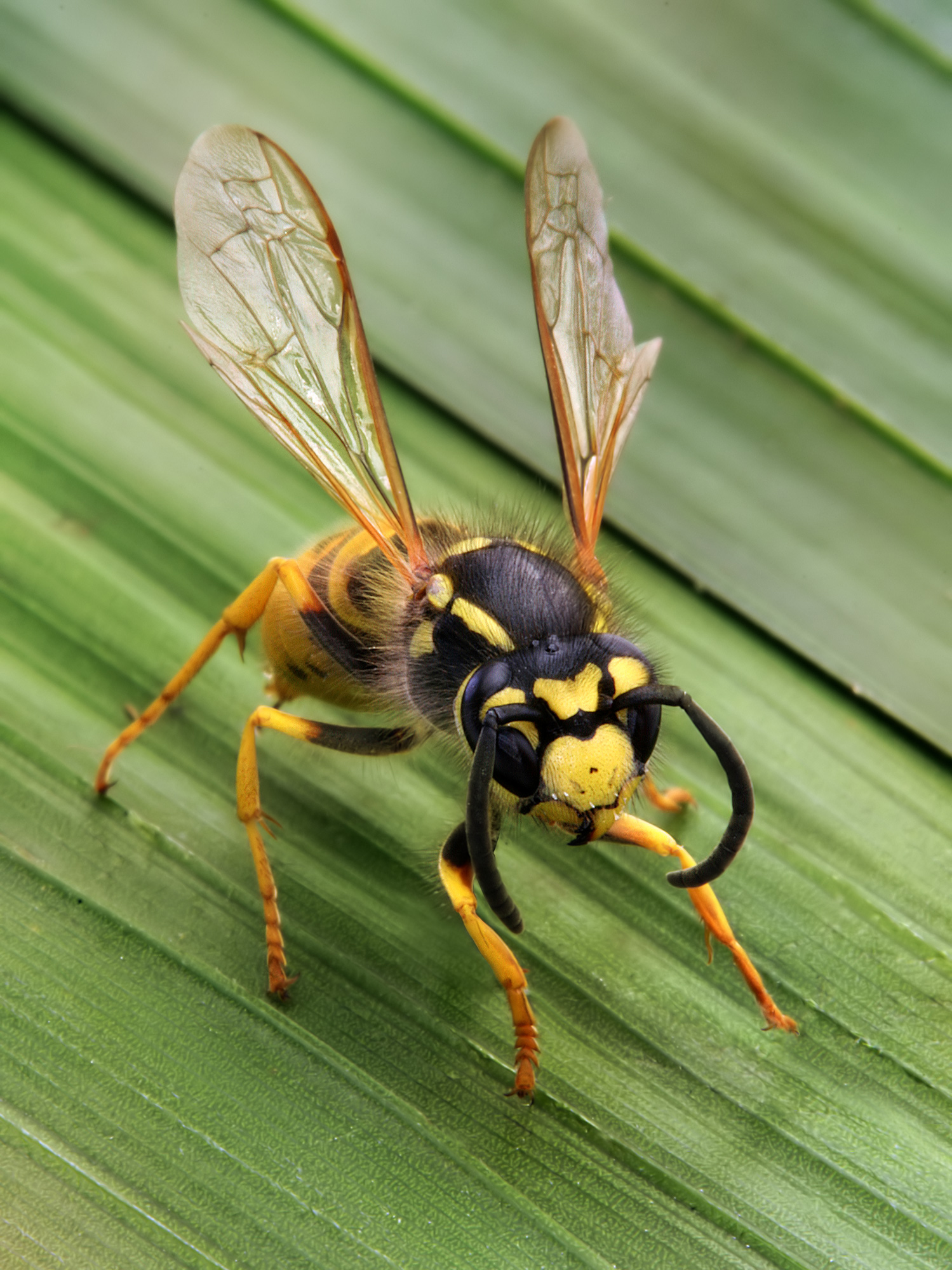 Description: Vespula is a small genus of social wasps, widely distributed in the Northern Hemisphere. Along with members of their sister genus Dolichovespula, they are collectively known by the common name yellowjackets (or yellow-jackets) in North America. Vespula species have a shorter malar space and a more pronounced tendency to nest underground, but are otherwise nearly indistinguishable from Dolichovespula. As shown a Vespula Germanica